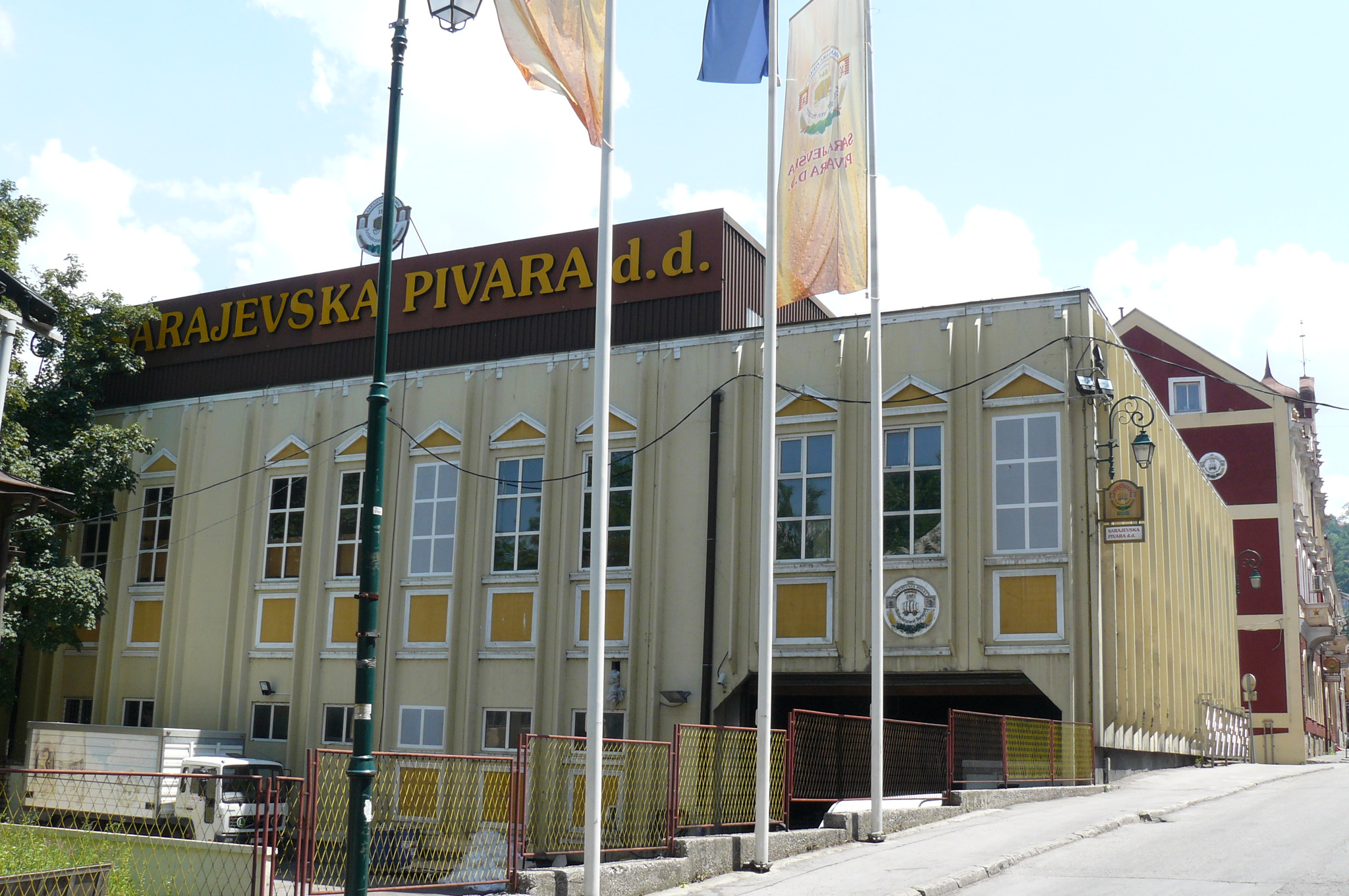 Sarajevska Pivara - Brewery in Sarajevo.